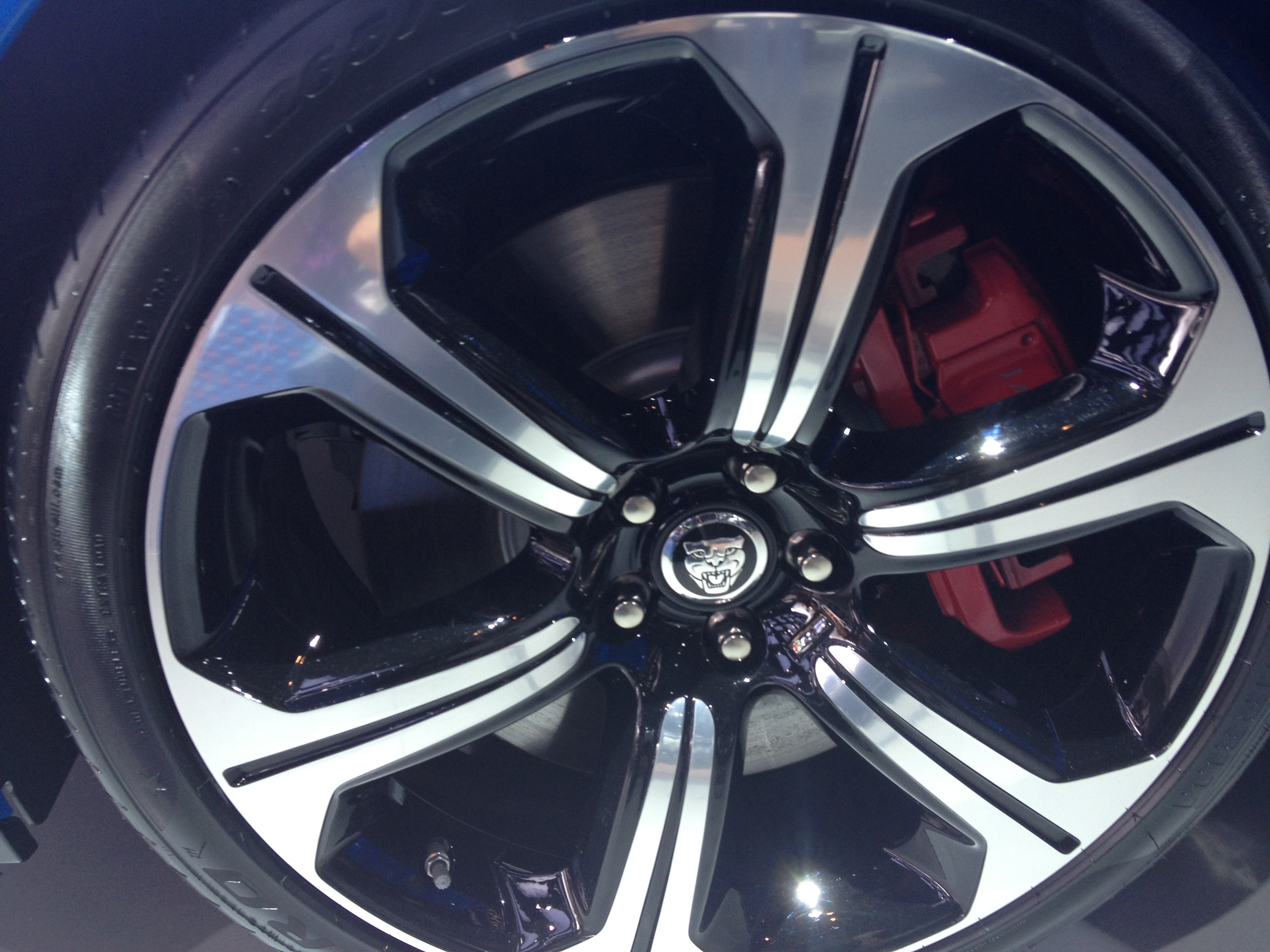 2013 North American International Auto Show Detroit, Michigan